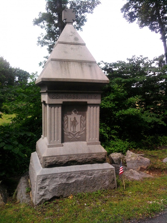 Monument dedicated to the 22nd Regiment Massachusetts Volunteer Infantry on the Gettysburg battlefield.